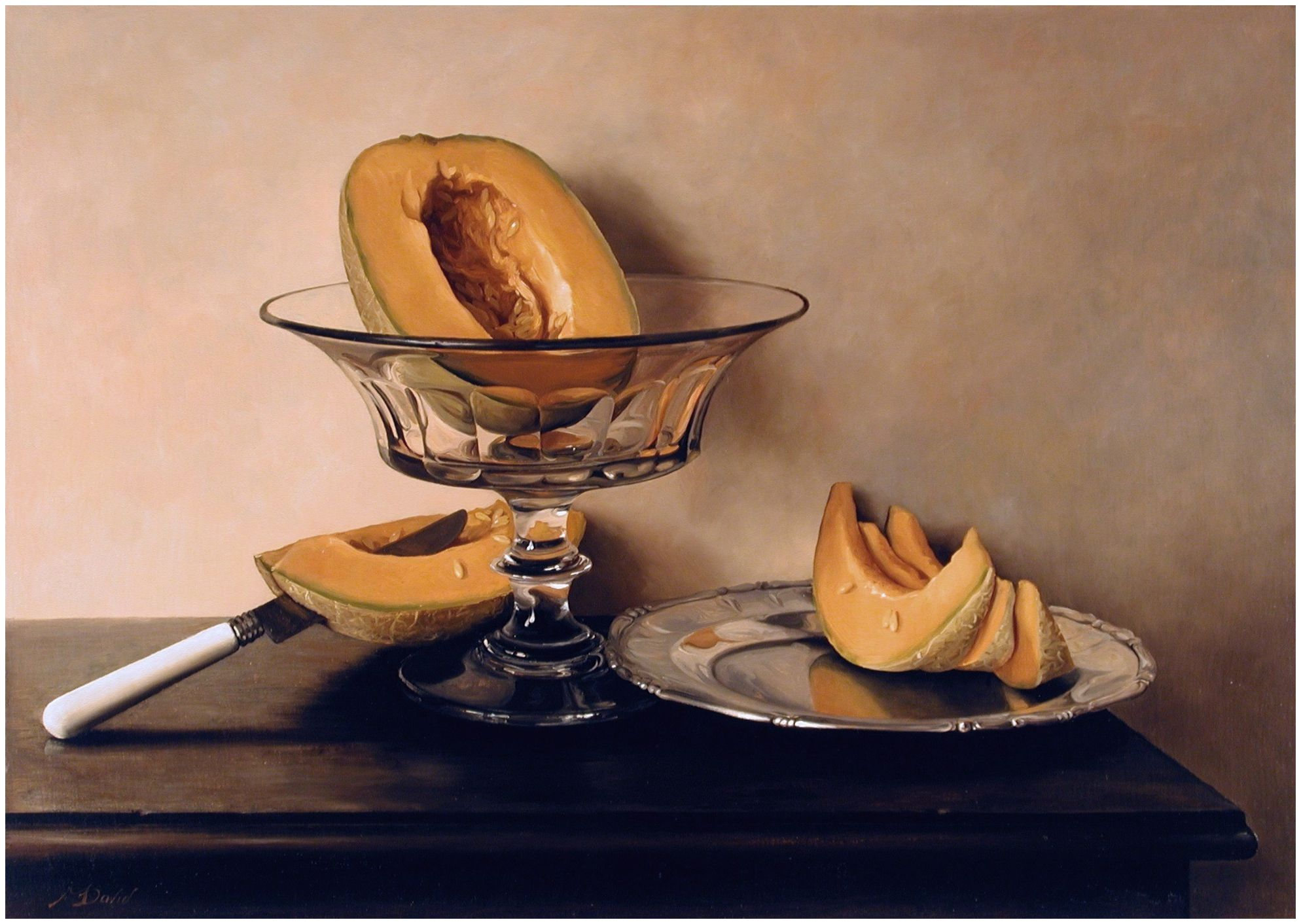 a hyperrealistic painting